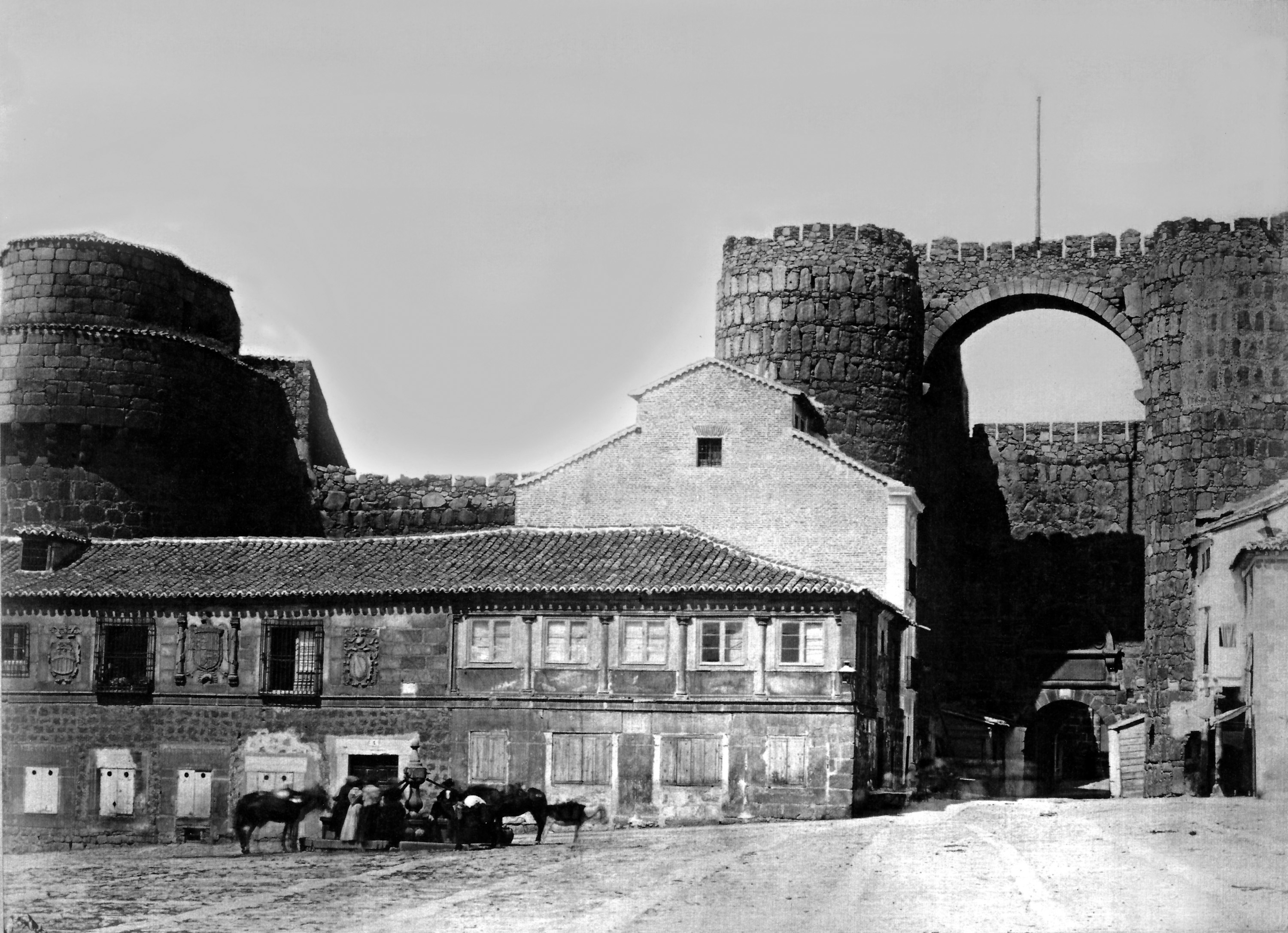 Wall Gate Alcázar in 1864, Ávila (Ávila, Spain)